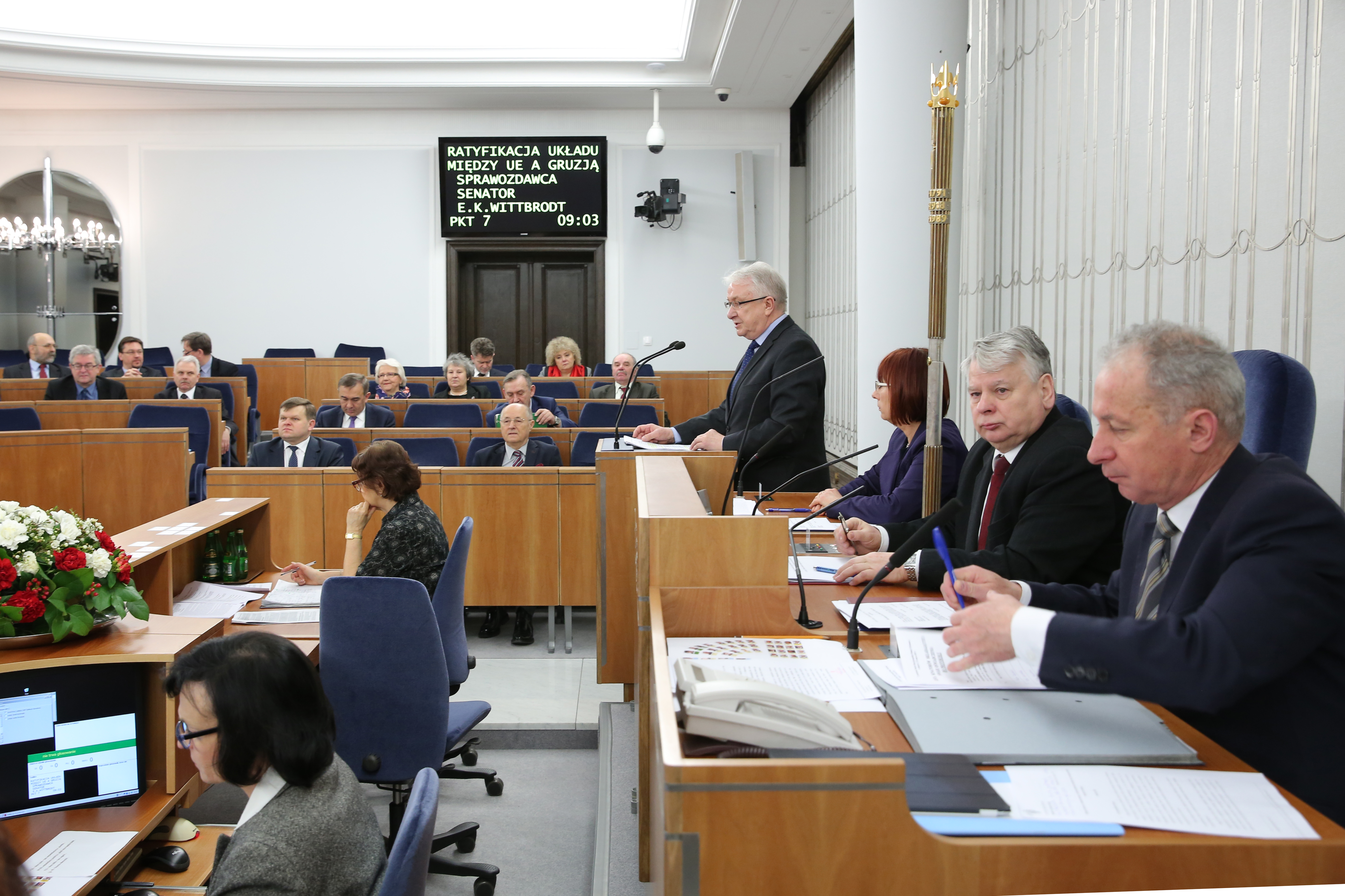 Senator Edmund Wittbrodt during 71st sitting of the Polish Senate